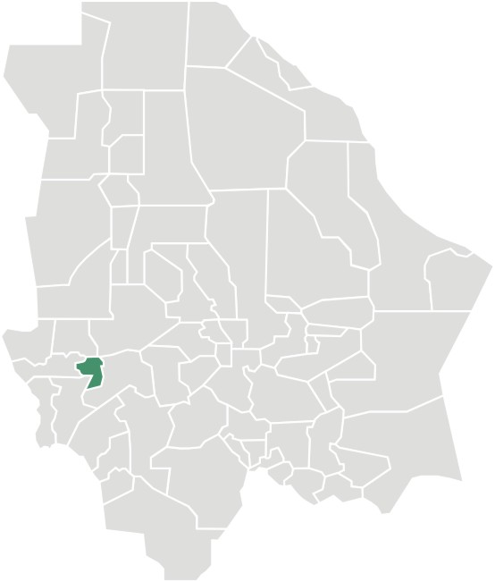 Map of the Municipalty of Maguarichi in the State of Chihuahua, México.